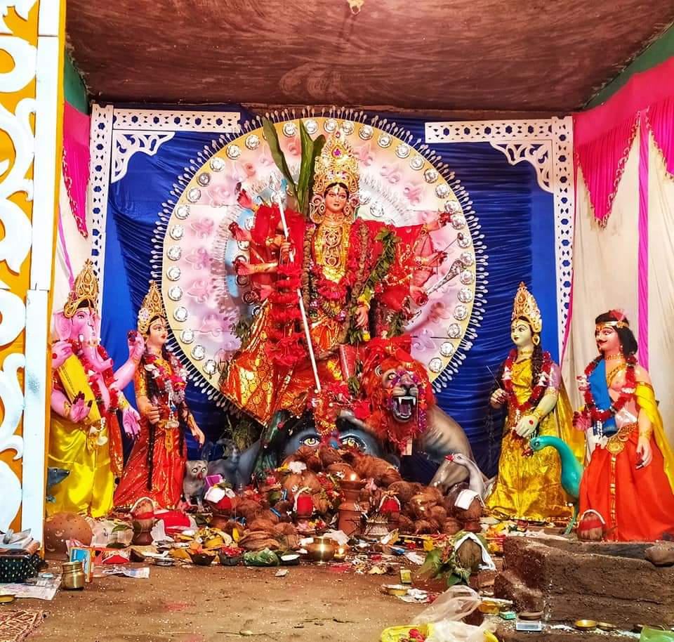 Durga Puja is being celebrated every year in Bargaon, Odisha and this is a photograph from the year 2019.